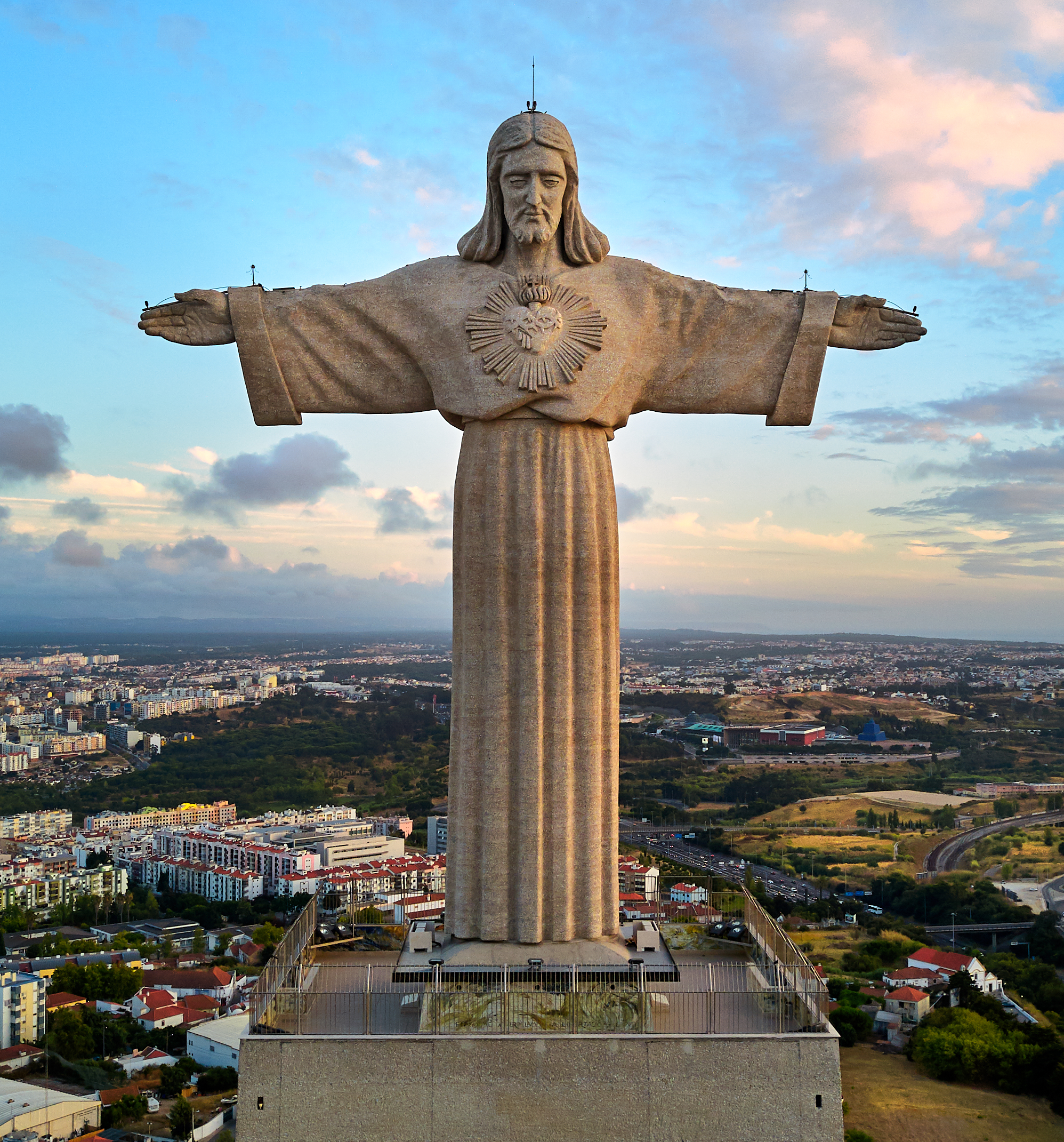 Santuário Nacional de Cristo Rei (Sanctuary of Christ the King)